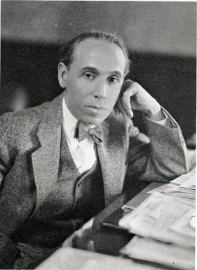 NASM ref no. 9A00623 National Air and Space Museum Smithsonian Institution Washington, DC